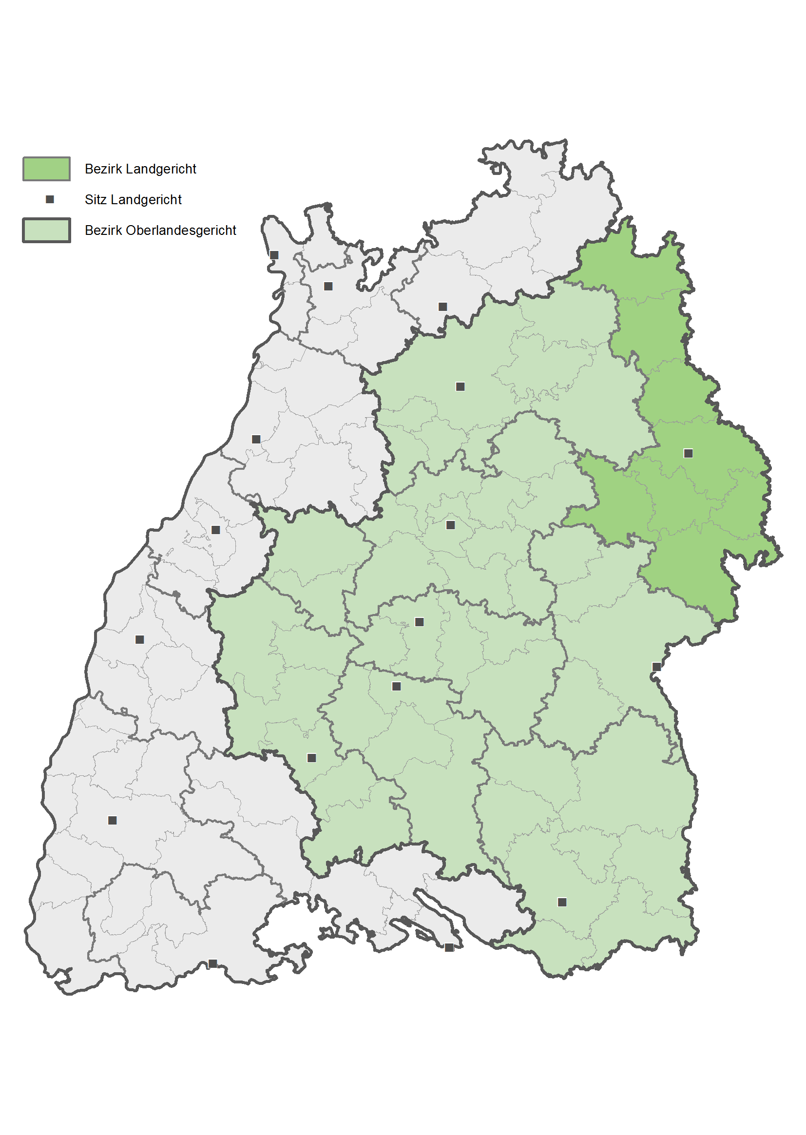 district map of the Landgericht (regional cort) Ellwangen in Baden-Württemberg, Germany